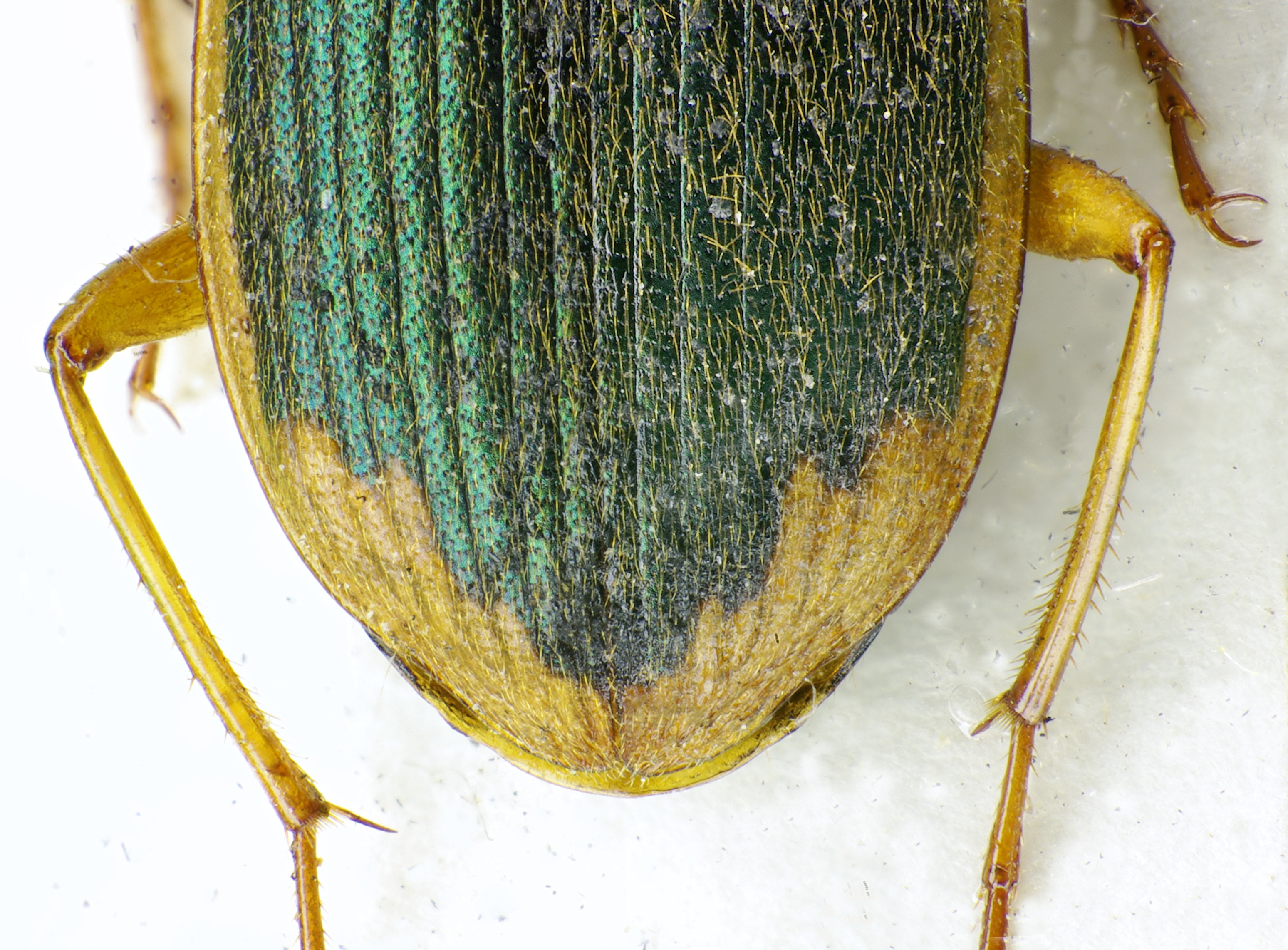 Apex of Chlaeniellus vestitus